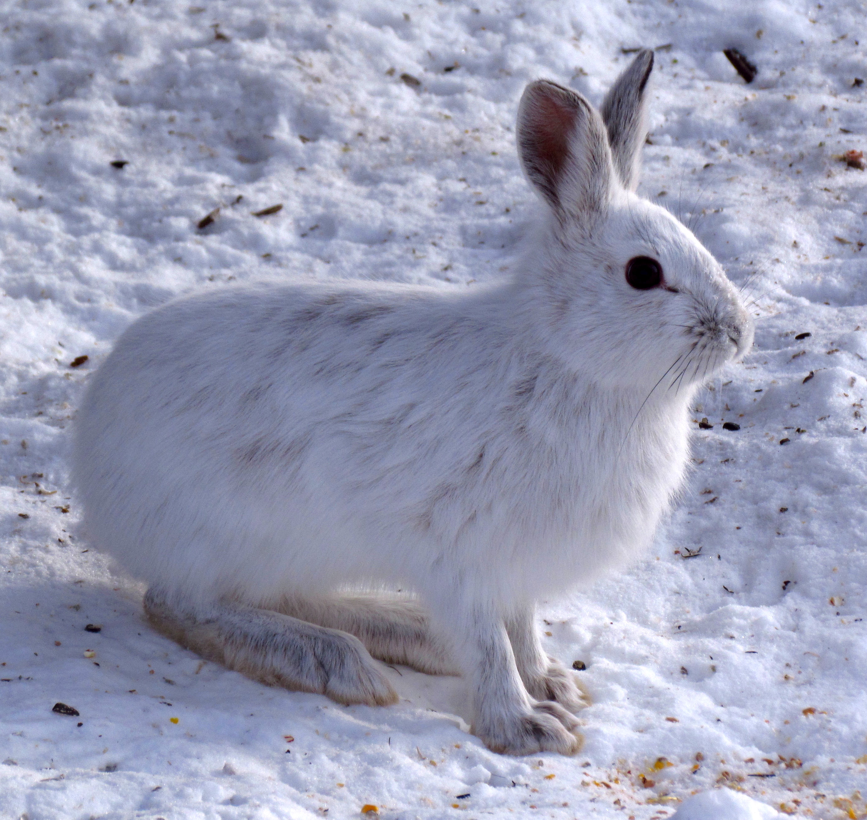 Snowshoe Hare (Lepus americanus), white morph, Shirleys Bay, Ottawa, Ontario, Canada